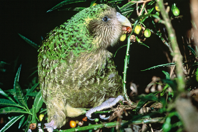 Kakapo Strigops habroptila "Trevor" feeding on ripe poroporo fruit. Maud Island, New Zealand. Photo: Don Merton, 2001.